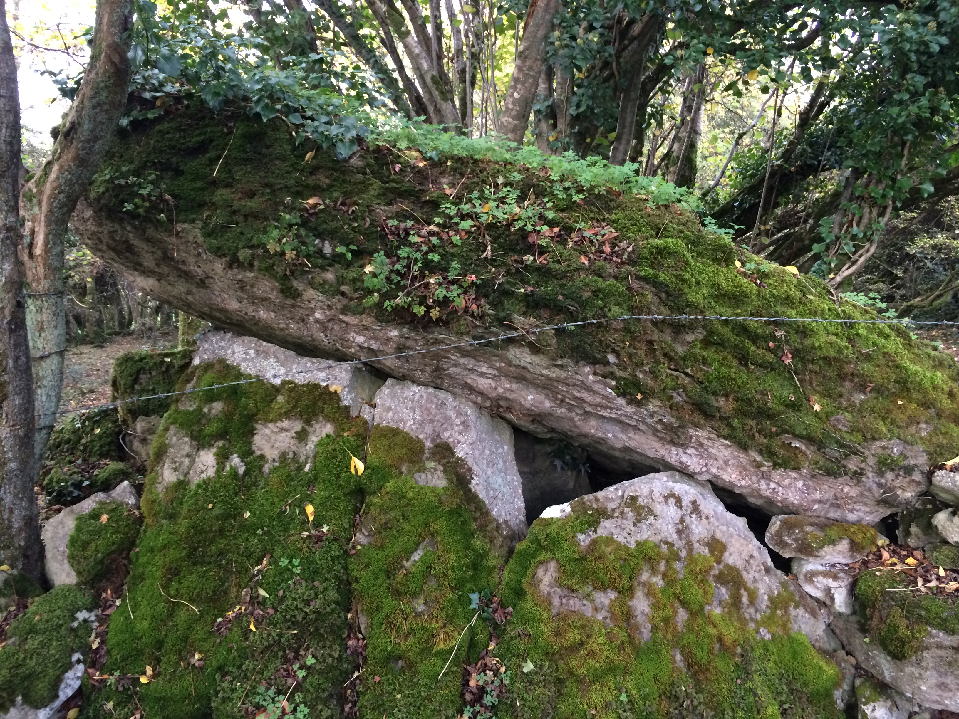 Meehambee Dolmen 29-10-2015